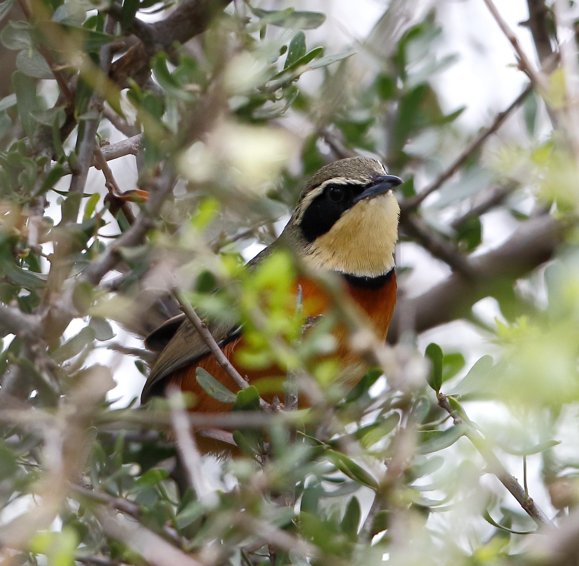 Olive-crowned crescentchest at Laguna Mar Chiquita, Córdoba, Argentina